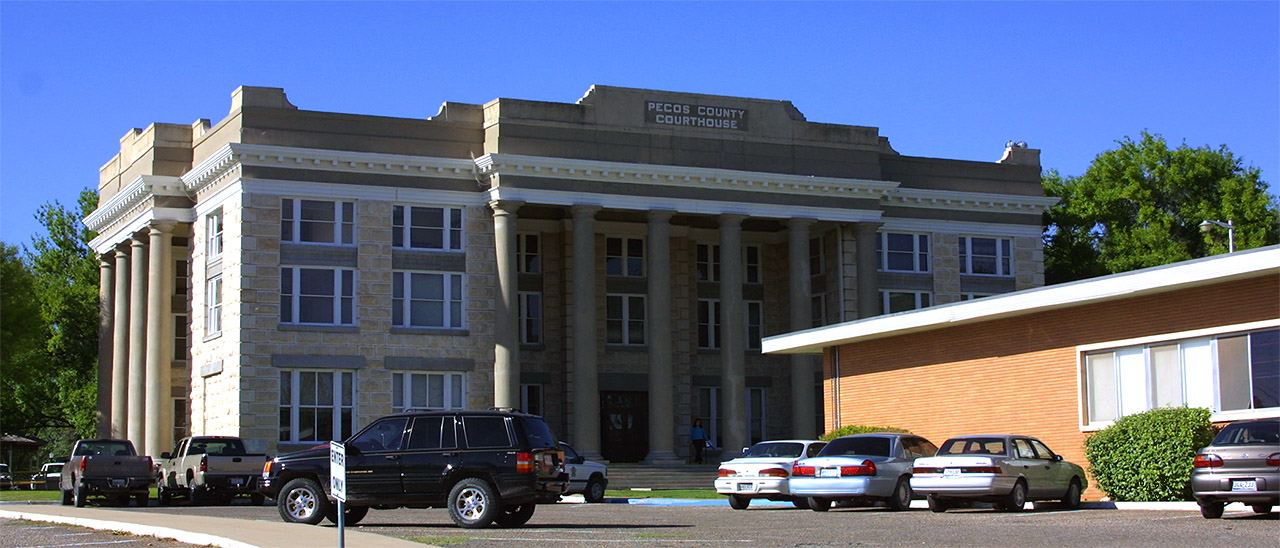 The Pecos County Courthouse located at 30.8828° -102.88° in Fort Stockton, Texas, United States.